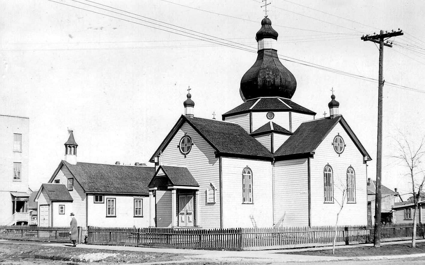 On the left: The Holy Ghost Church was blessed by Bishop Seraphim on 13th December 1903 and opened for worship. On the right: Built later with Presbyterian funding,the Independent Greek Church of Our Saviour was the independent church headed by Ivan Bodrug.